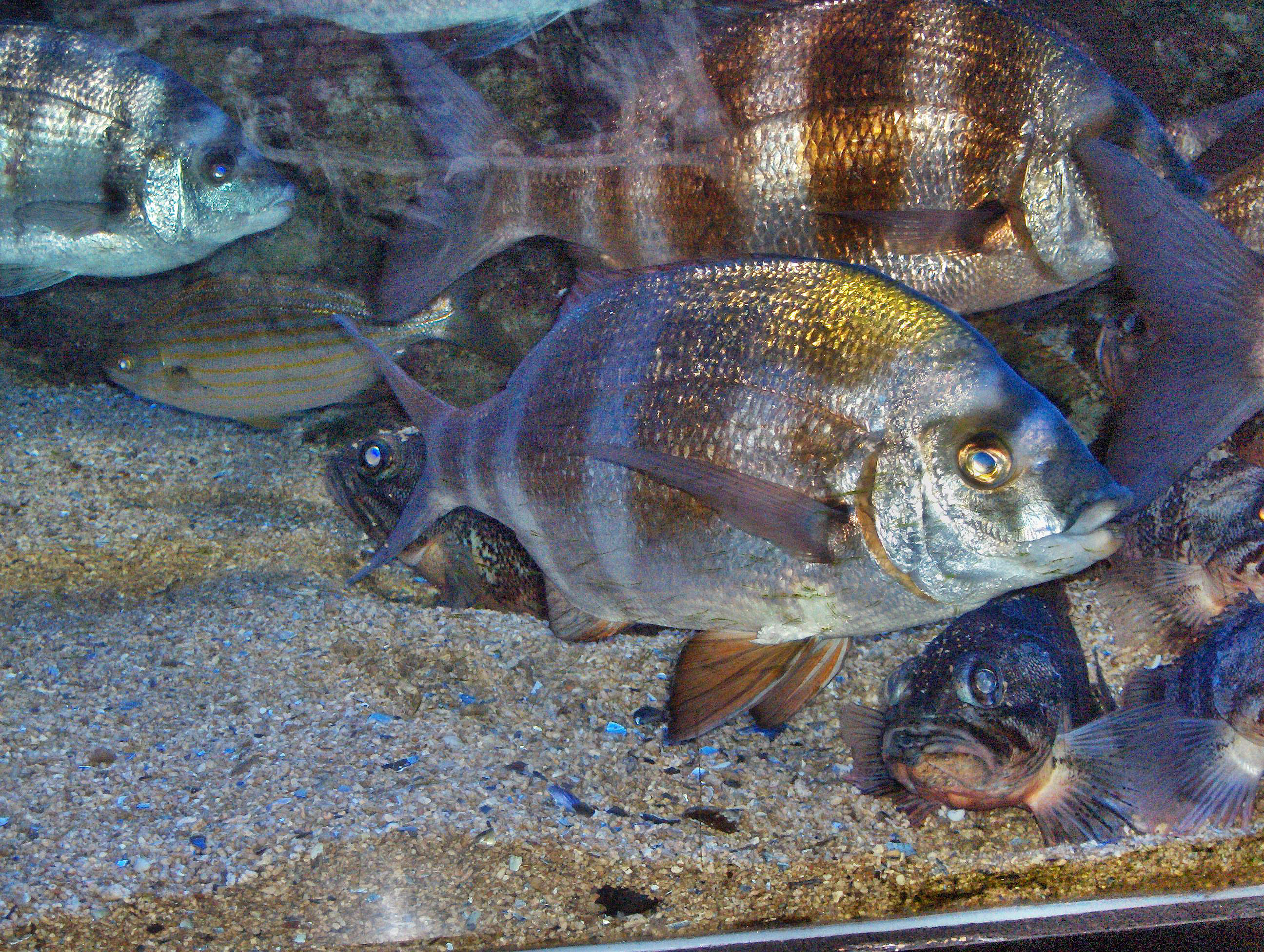 Five-banded bream (Diplodus cervinus); Musée Océanographique de Monaco